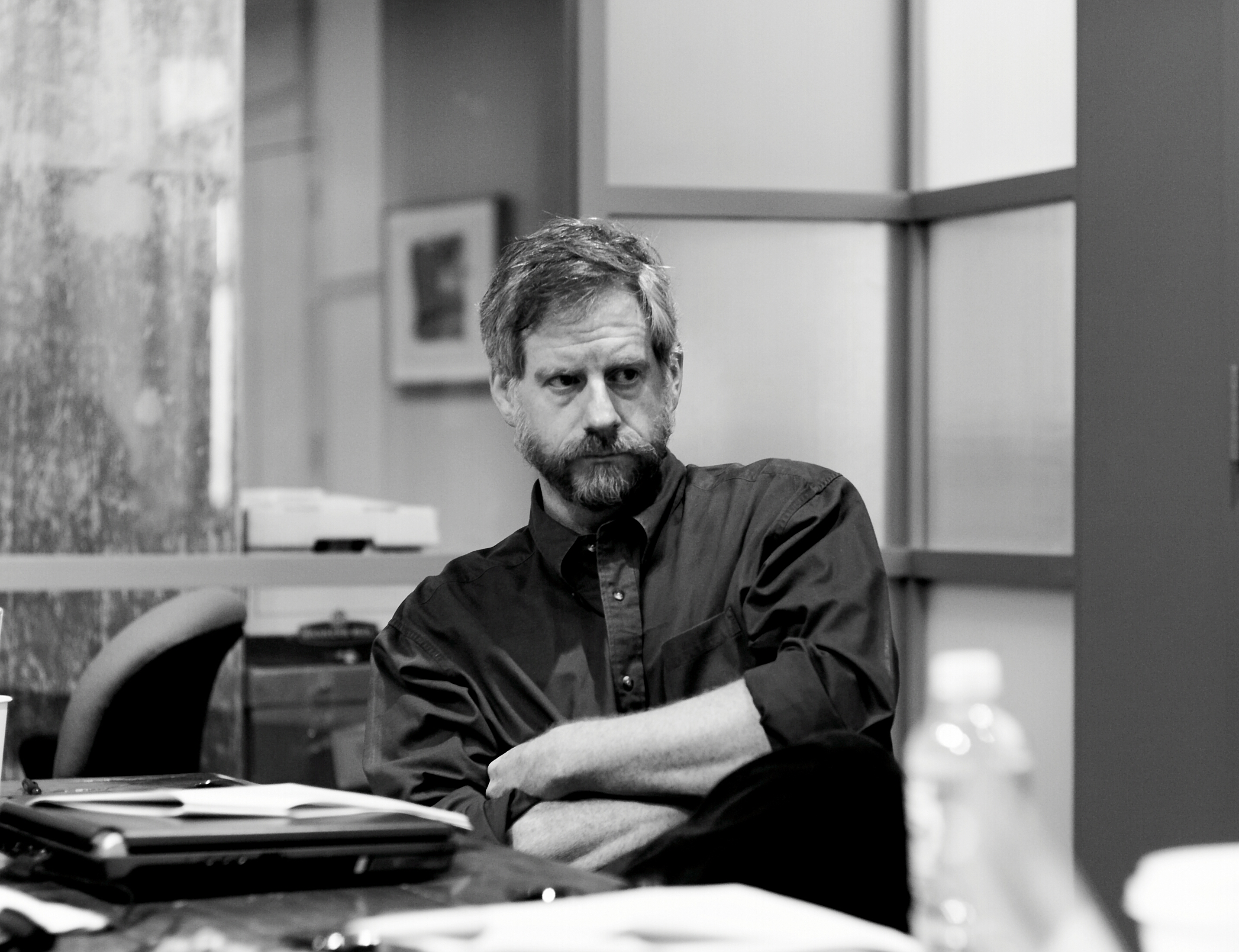 Michael Carroll